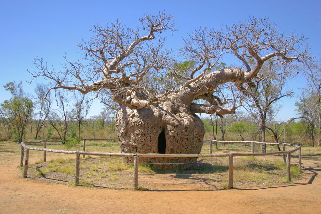 Boab Prison Tree - a tree that has been used as a Prison near Derby, Western Australia